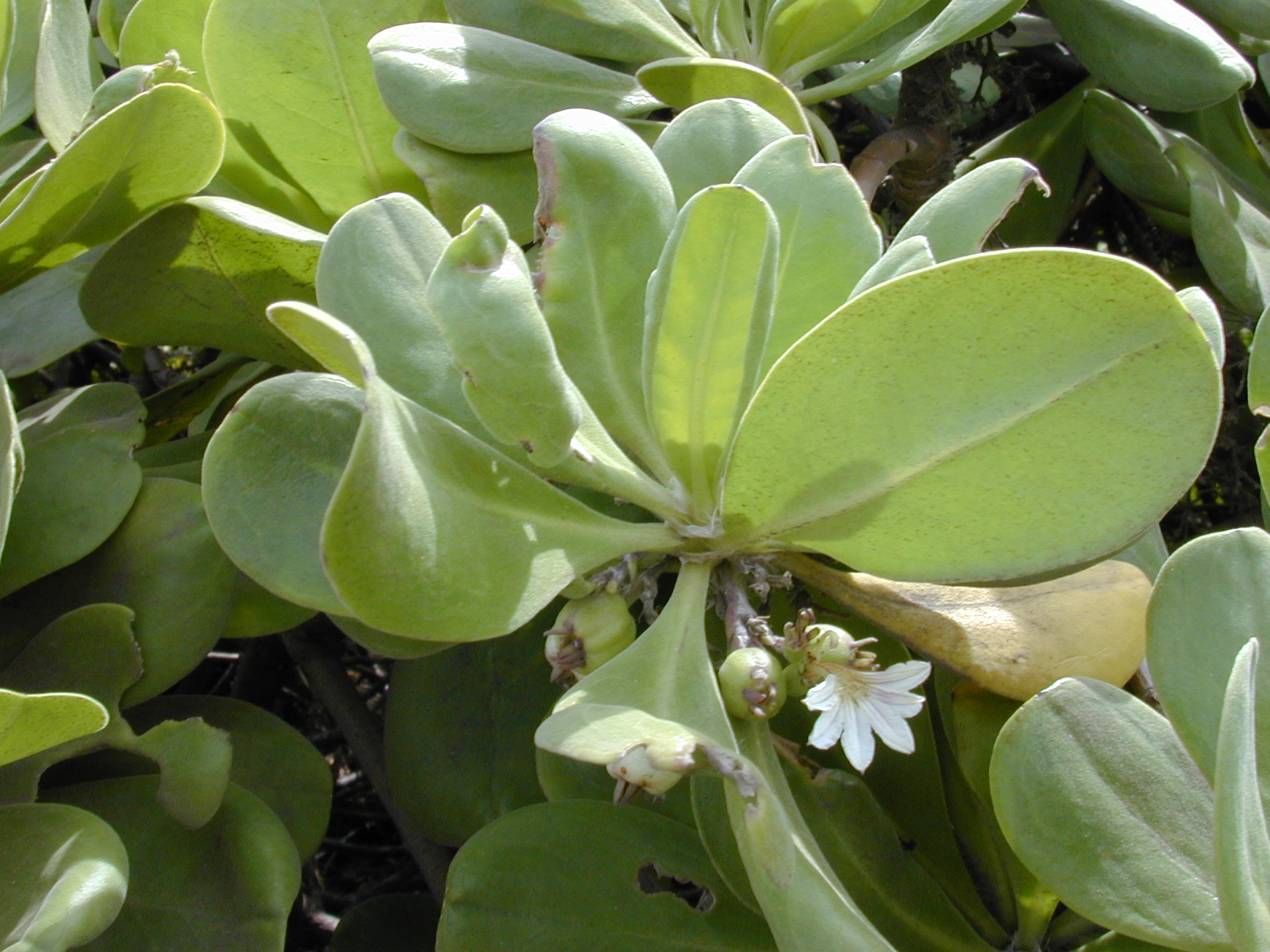 Scaevola taccada (flower and leaves). Location: Maui, Kanaha Beach